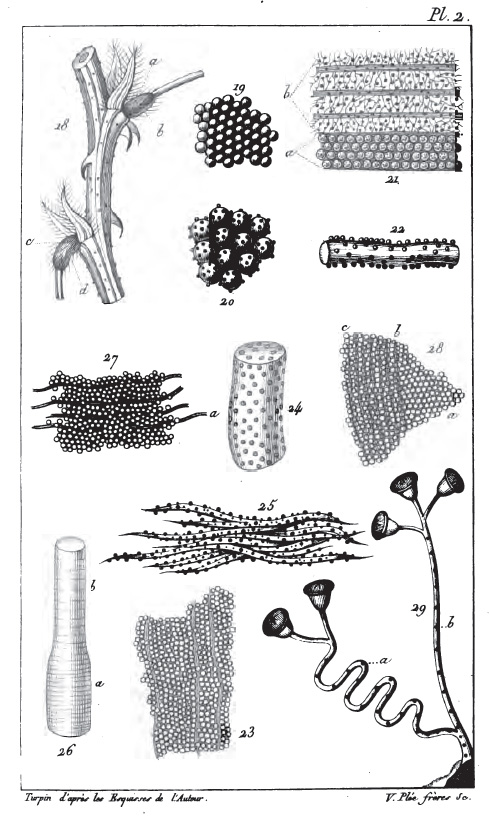 Turpin, cells based on sketches by Henri Dutrochet (1776-1847). Planche 2